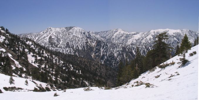 Summits in the eastern San Gabriel Mountains, Angeles Nation Forest, San Bernardino County, California. The main peaks are: Telegraph Peak 8985' (left), Cucamonga Peak 8859' (center), Ontario Peak 8693' (center right). As seen from Baldy Bowl on San Bernardino.